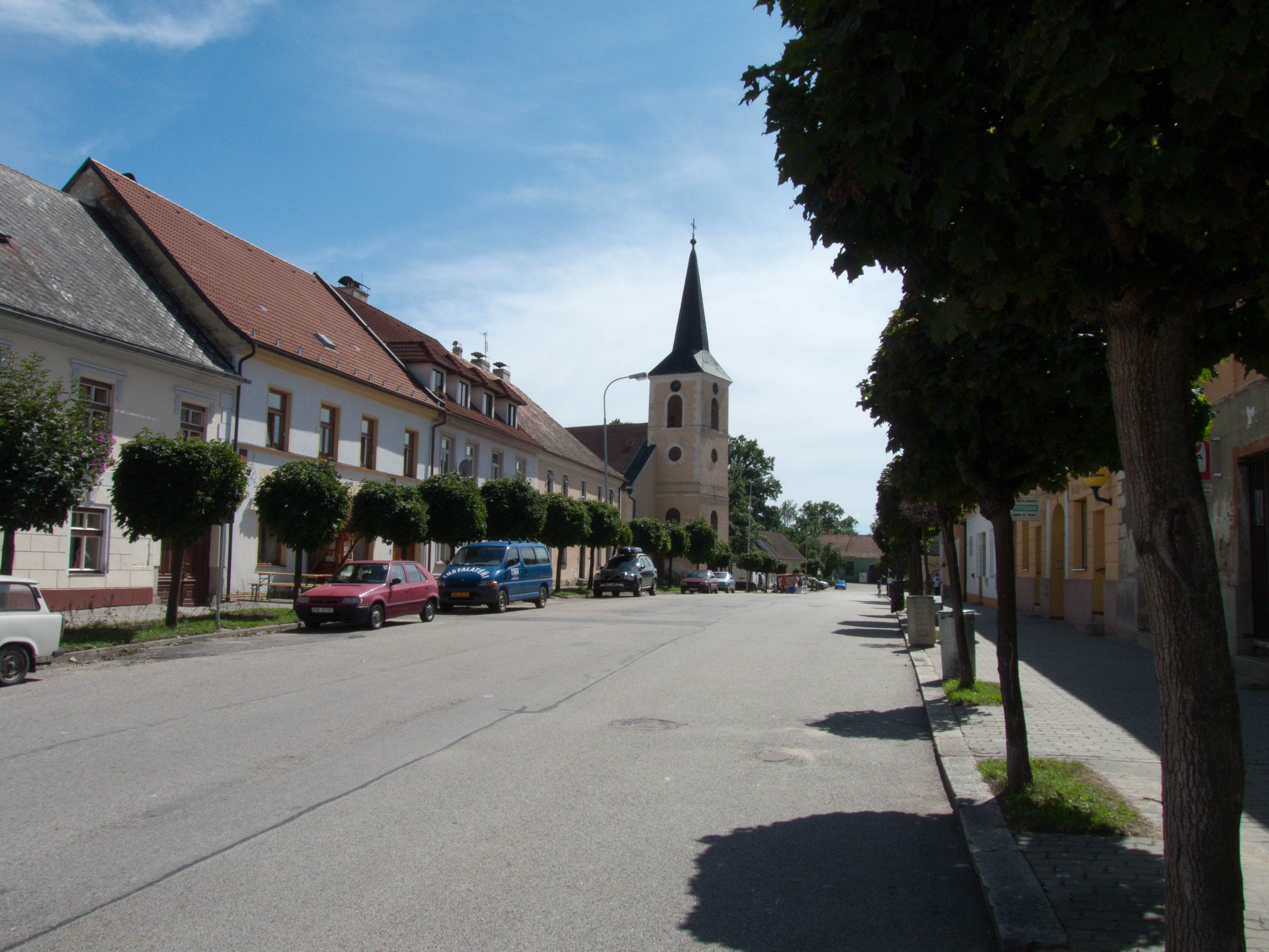 Masarykovo Square in the town of Nová Včelnice, Jindřichův Hradec District, Czech Republic